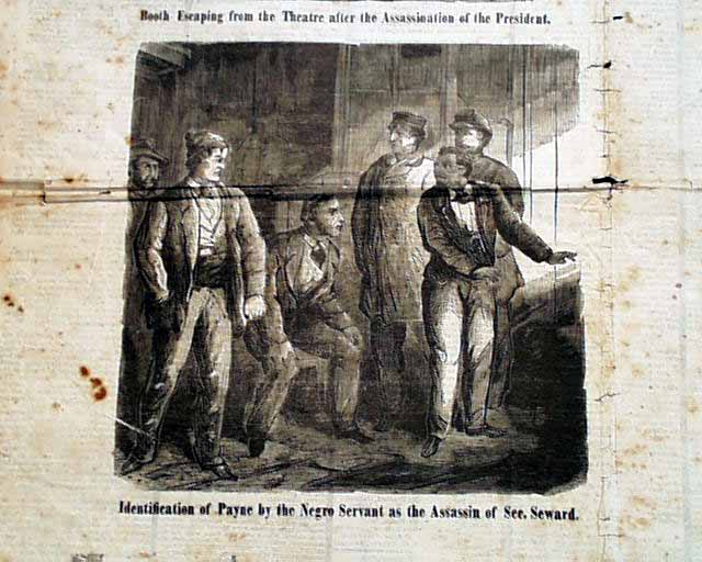 In the picture, William H. Bell (servant to William Seward) is pictured identifying Lewis Powell (AKA Lewis Payne) to be the assassin that entered the Seward home on April 14th, 1865 and attempted to assassinate the Secretary of State William Seward. According to his 1865 testimony, this police line up took place at General Augur's headquarters in Washington D.C. just after Powell was taken into custody. “Identification of Payne by the Negro Servant of the Assassin of Sec. Seward” National Police Gazette: New York for the Week ending April 29th, 1865. Vol XX. No 1026.